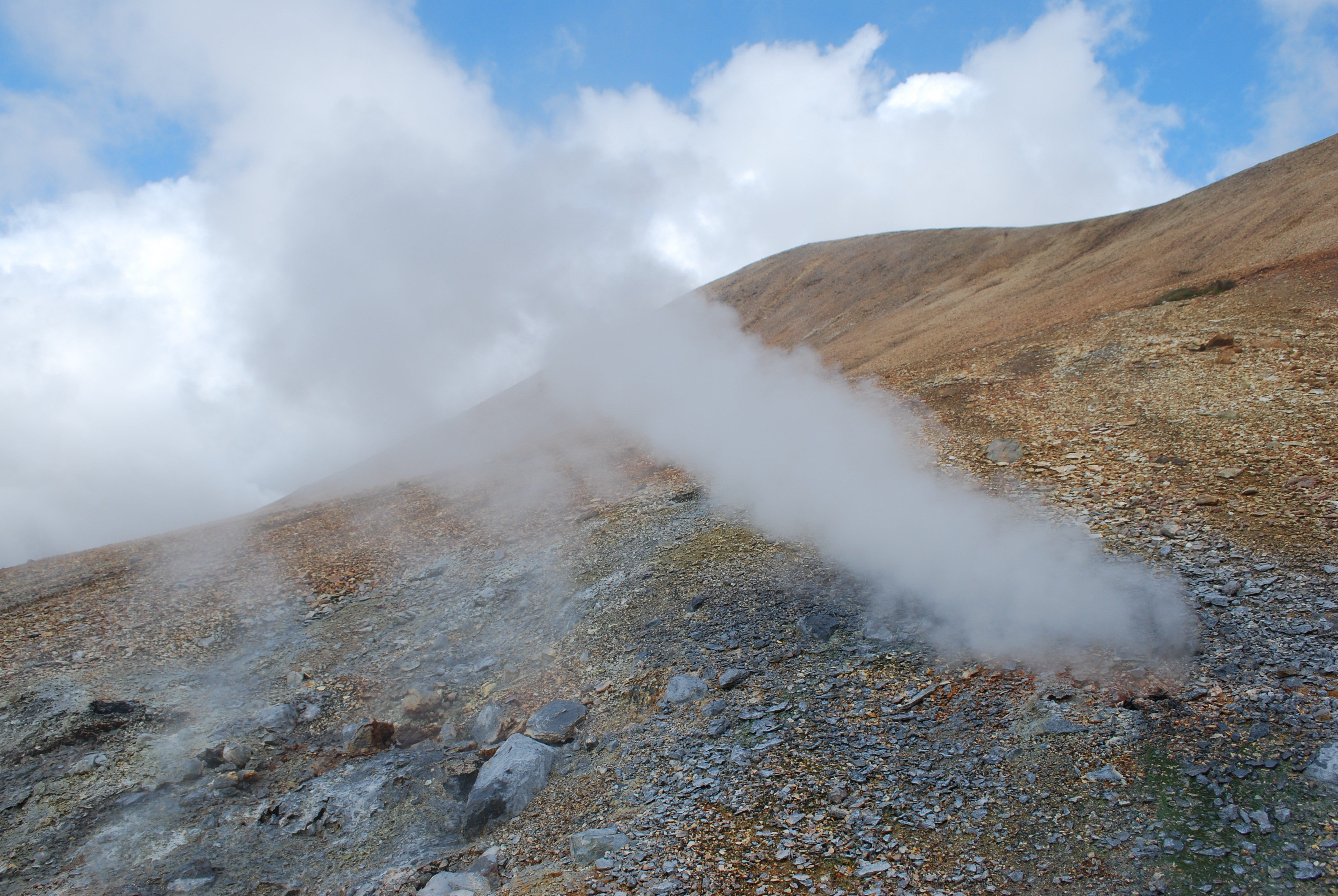 Fumarole. Kaldaklofsfjöll mountain range during path to Landmannalaugar, Iceland